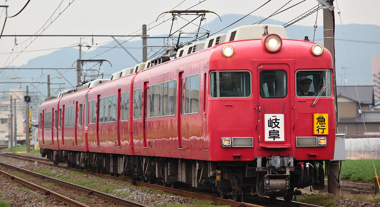 Meitetsu 7700 and 5300 series EMU ( 7715F + 5310F ), between Unumajuku Sta. and Haba Sta.